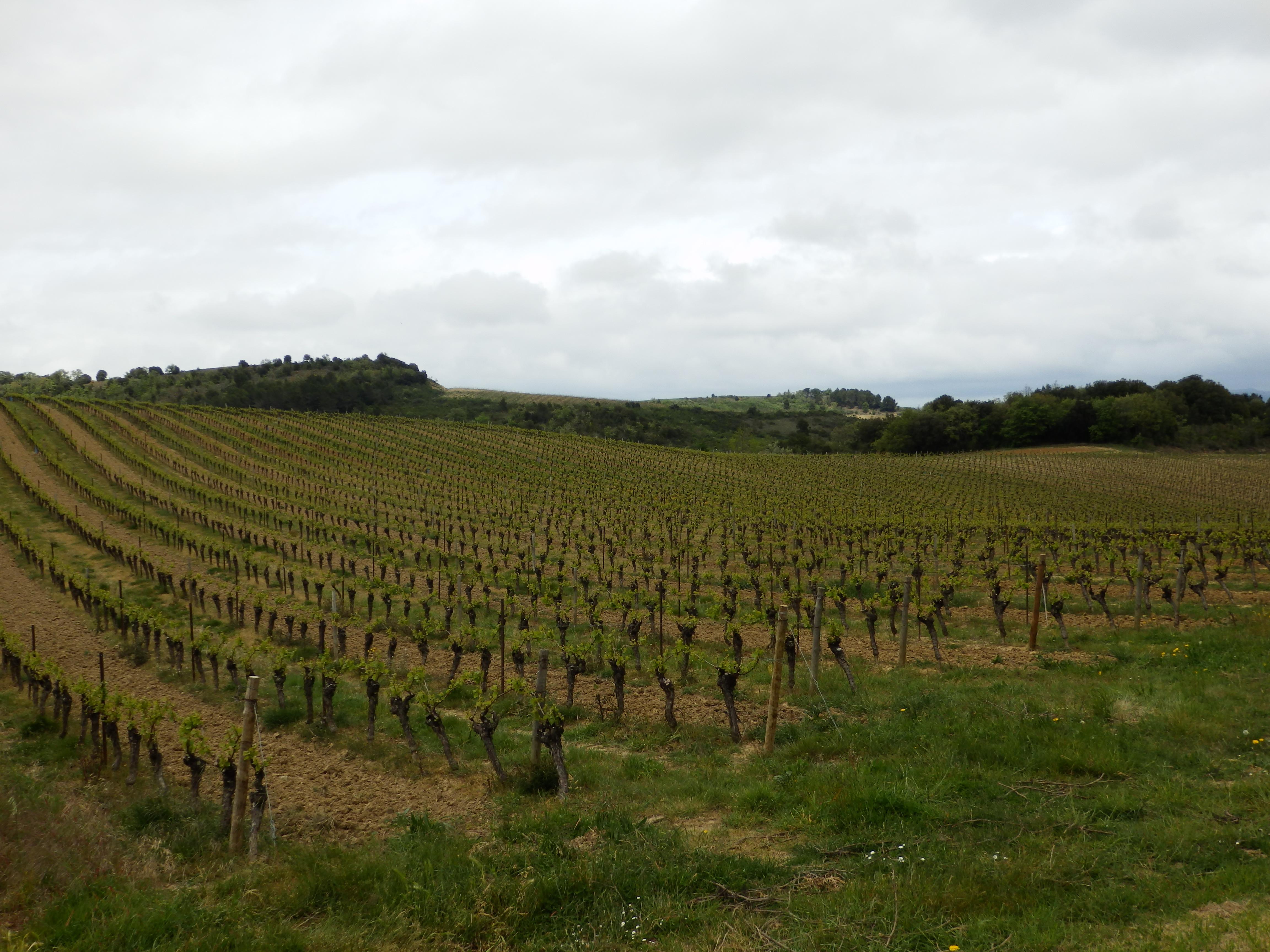 Landscape in Donazac, Aude, France